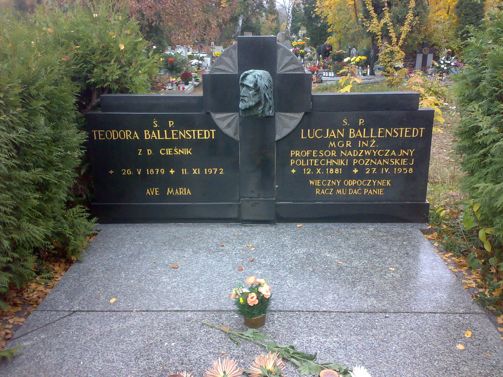 Tomb of Lucjan Ballenstedt in Junikowo-Nekropoly in Poznan. Architekt.